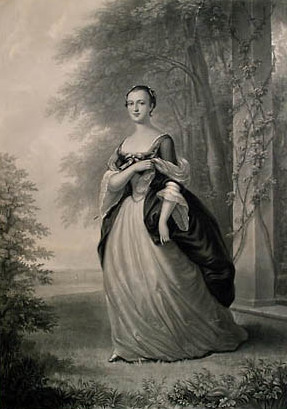 Mezzotint of Martha Washington made by John Folwell, drawn by W. Oliver Stone after the original by John Wollaston, painted in 1757